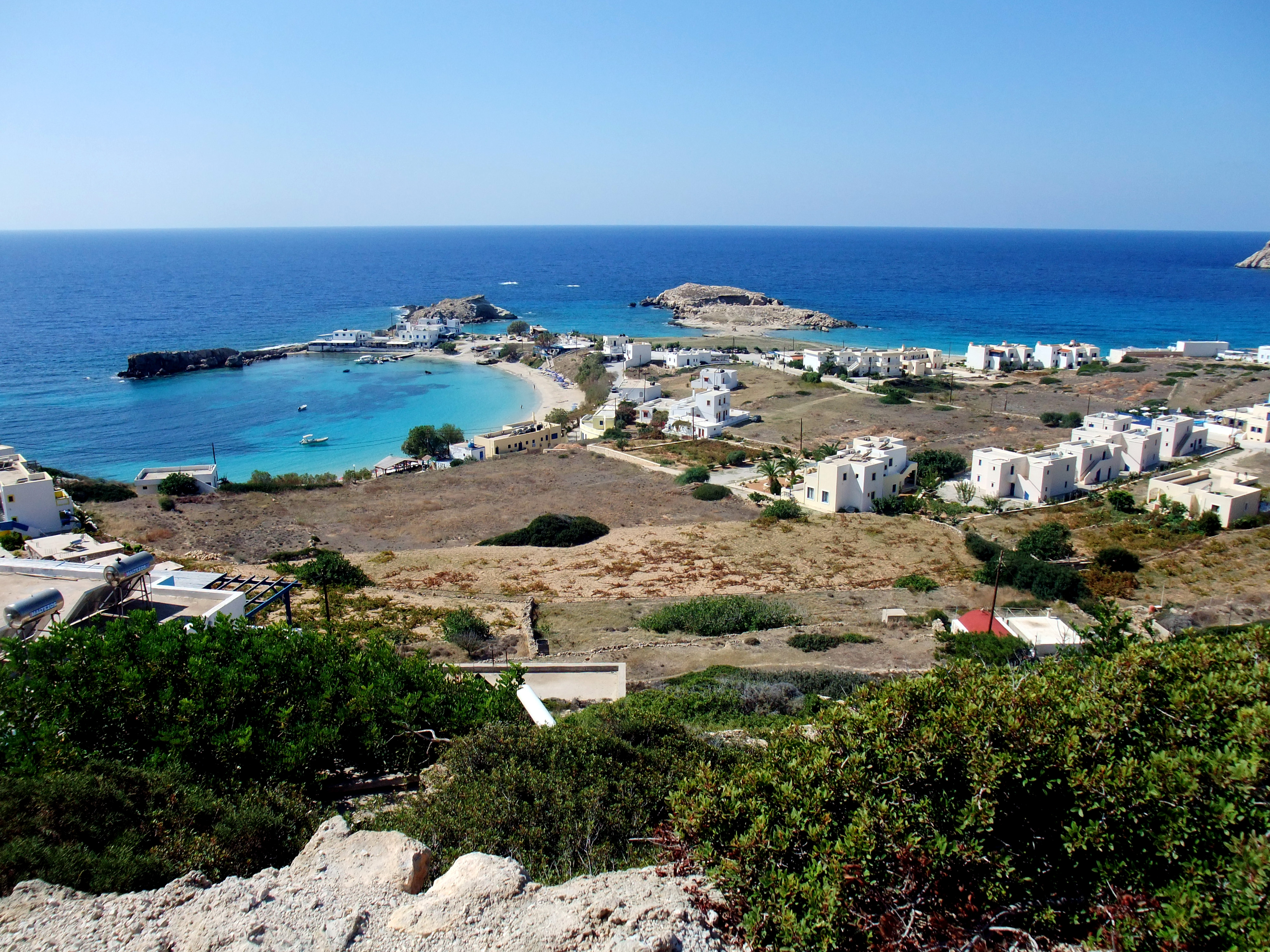 Lefkós, village in Karpathos, Greek Dodecanese islands